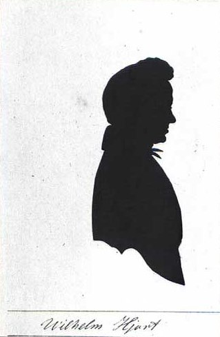 Vilhelm Billeschou Hjort (1813-1867), Danish jurist, civil servant, and politician, MP